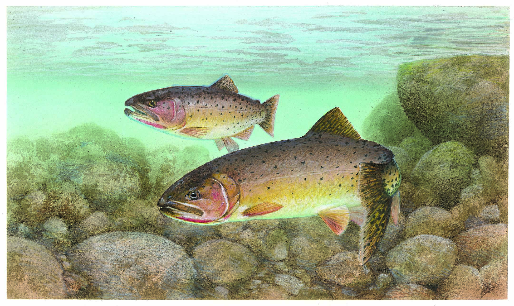 Image title: Trout cutthroat fish oncorhynchus clarkii clarkii Image from Public domain images website